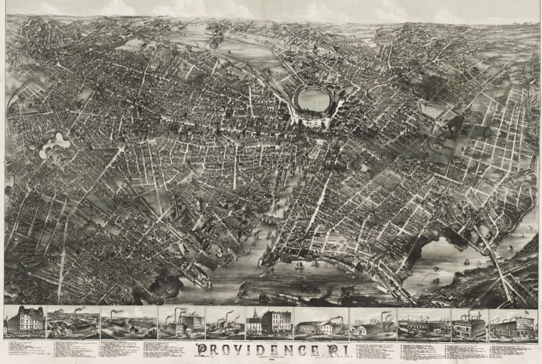 Providence, R.I. Author: O.H. Bailey & Co. Publisher: O.H. Bailey & Co. Date: 1882 Location: Providence (R.I.) Dimension 70.0 x 101.0 cm. Scale: Not drawn to scale